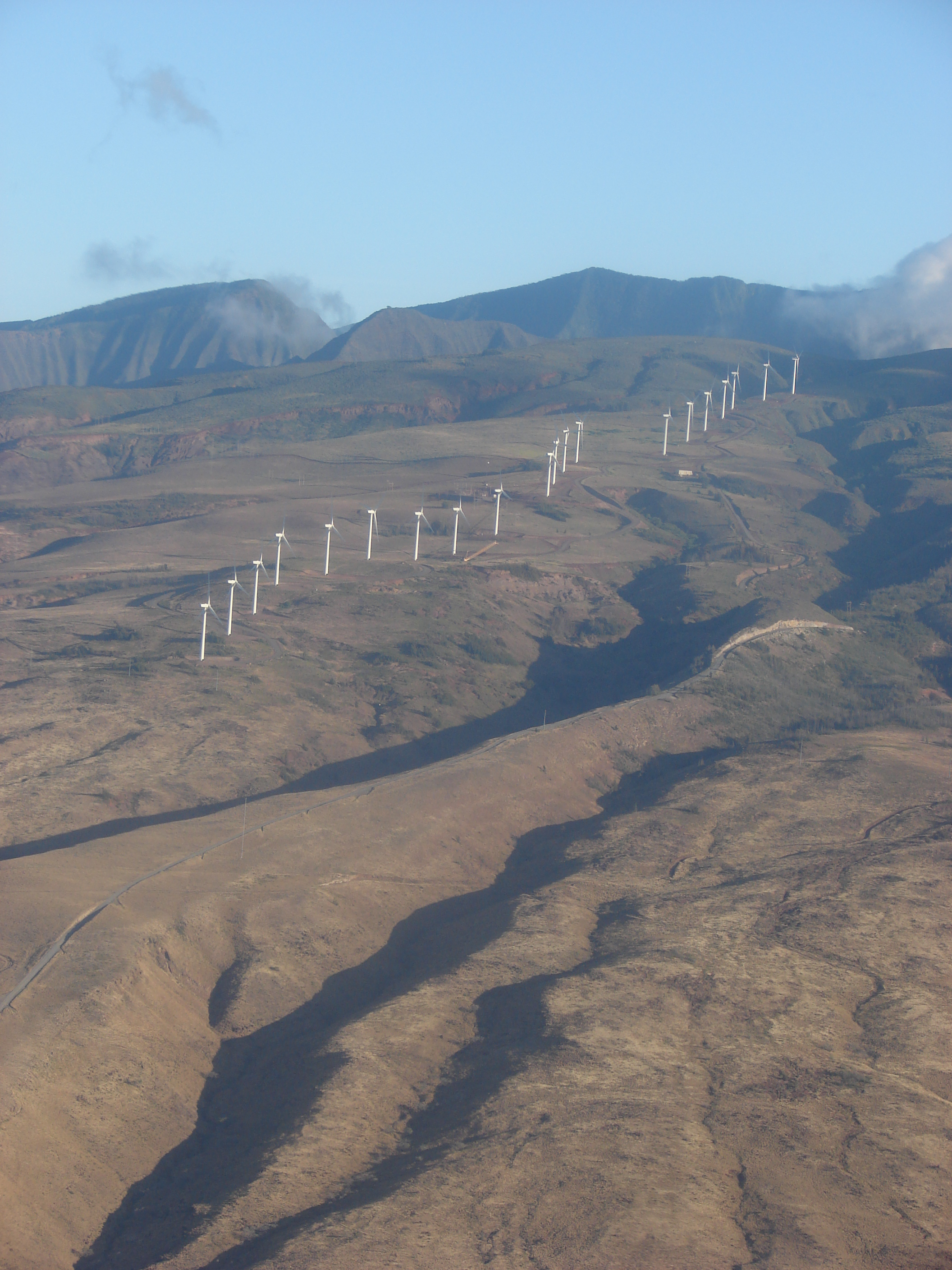 Heteropogon contortus (habitat and Kaheawa Wind Farm). Location: Maui, West Maui